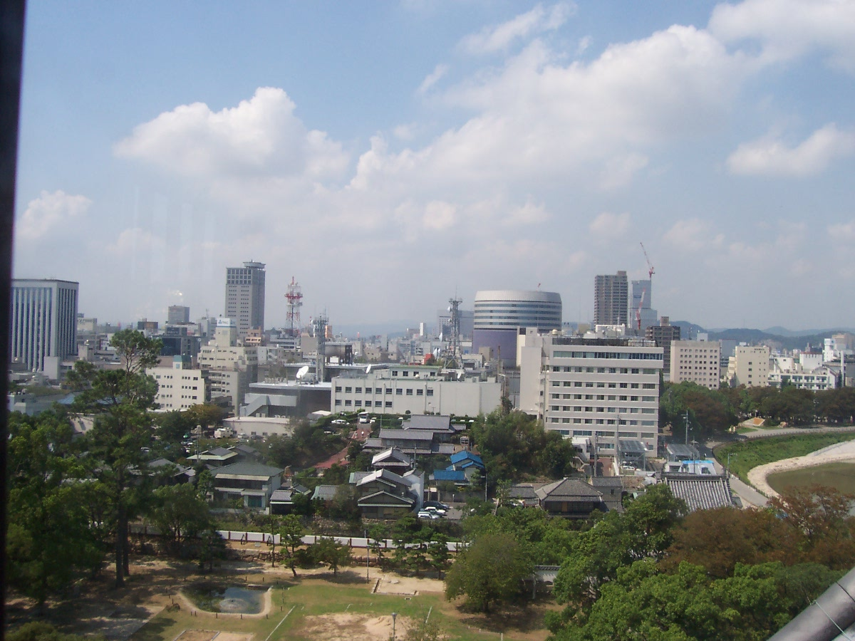 Foto of the skyline of Okayama token at the top of Okayama-Castle